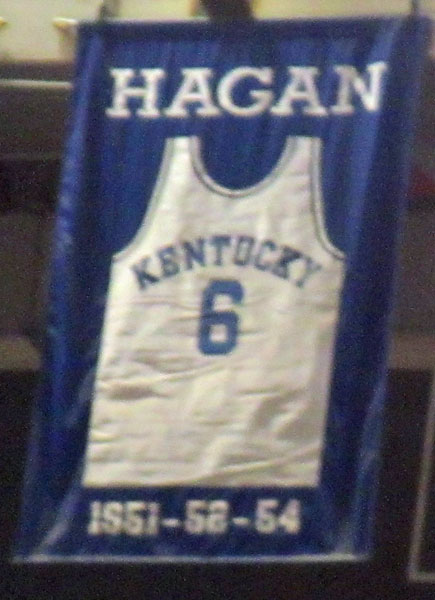 A jersey honoring Cliff Hagan hanging in Rupp Arena in Lexington, Kentucky